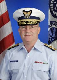 Charles D. Wurster, Commander, Pacific Area and Commander, Defense Force West of the United States Coast Guard.